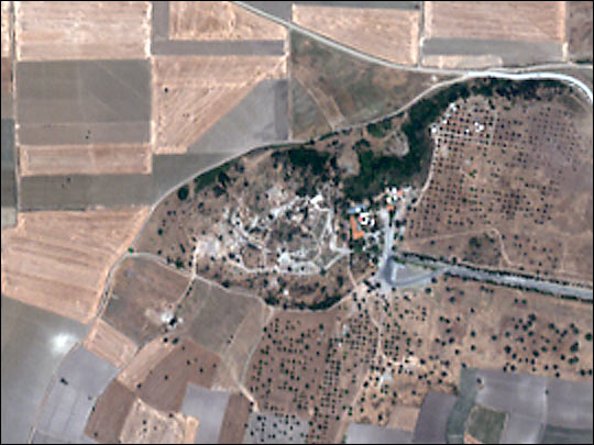 Troy from above (by IKONOS)